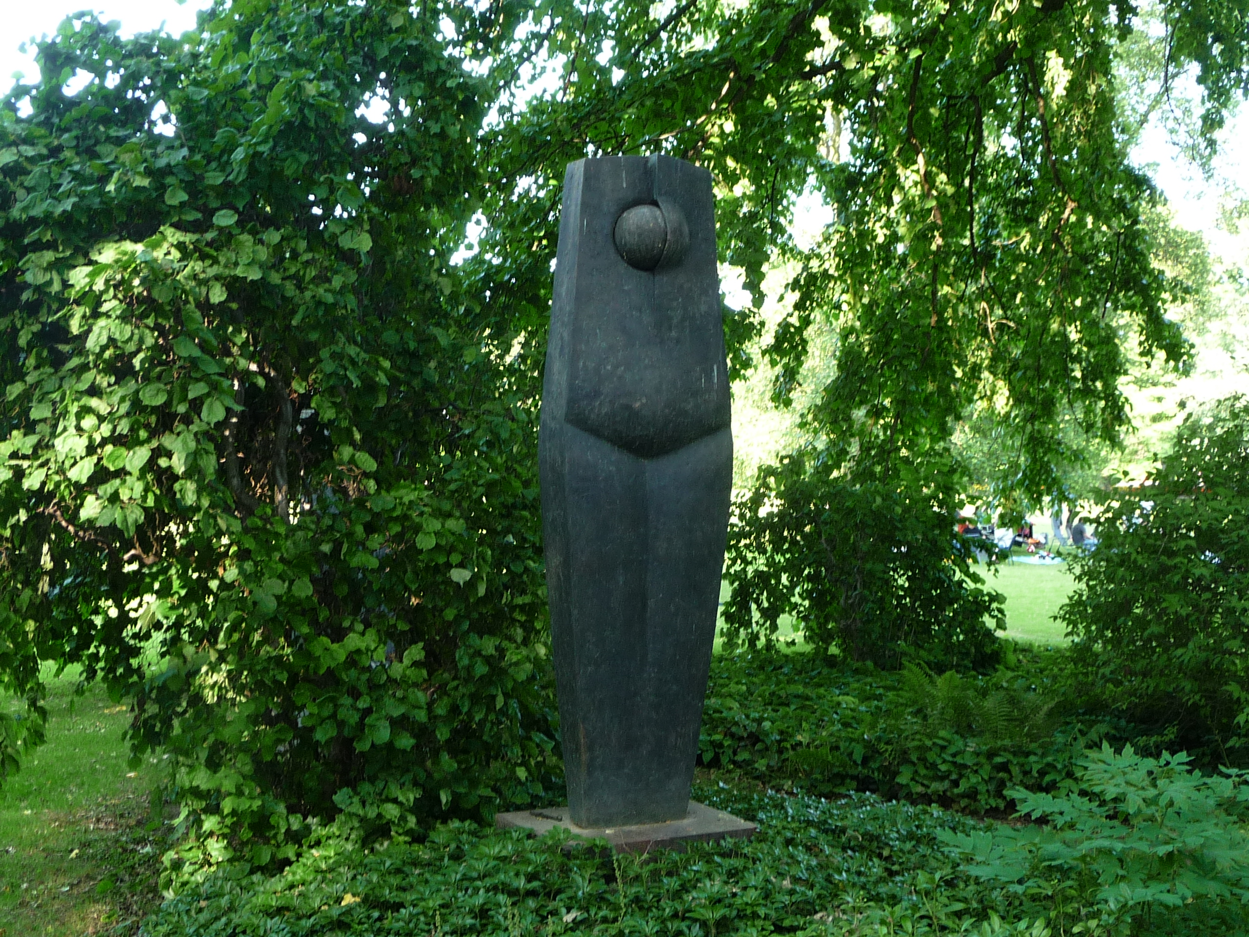 Sculptures in Mannheim